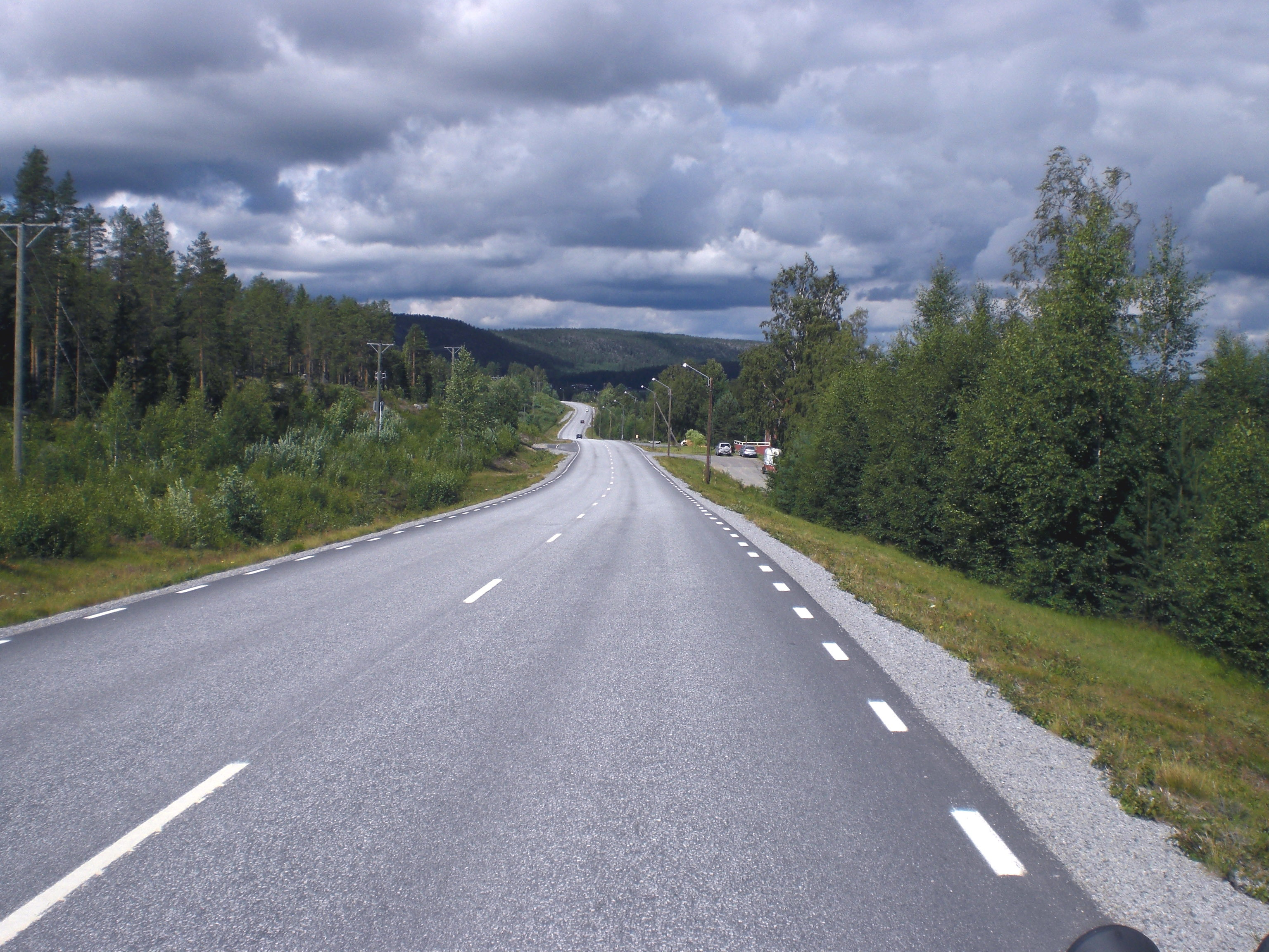 Swedish county road 363 Västerbotten, south of Tavelsjö lake